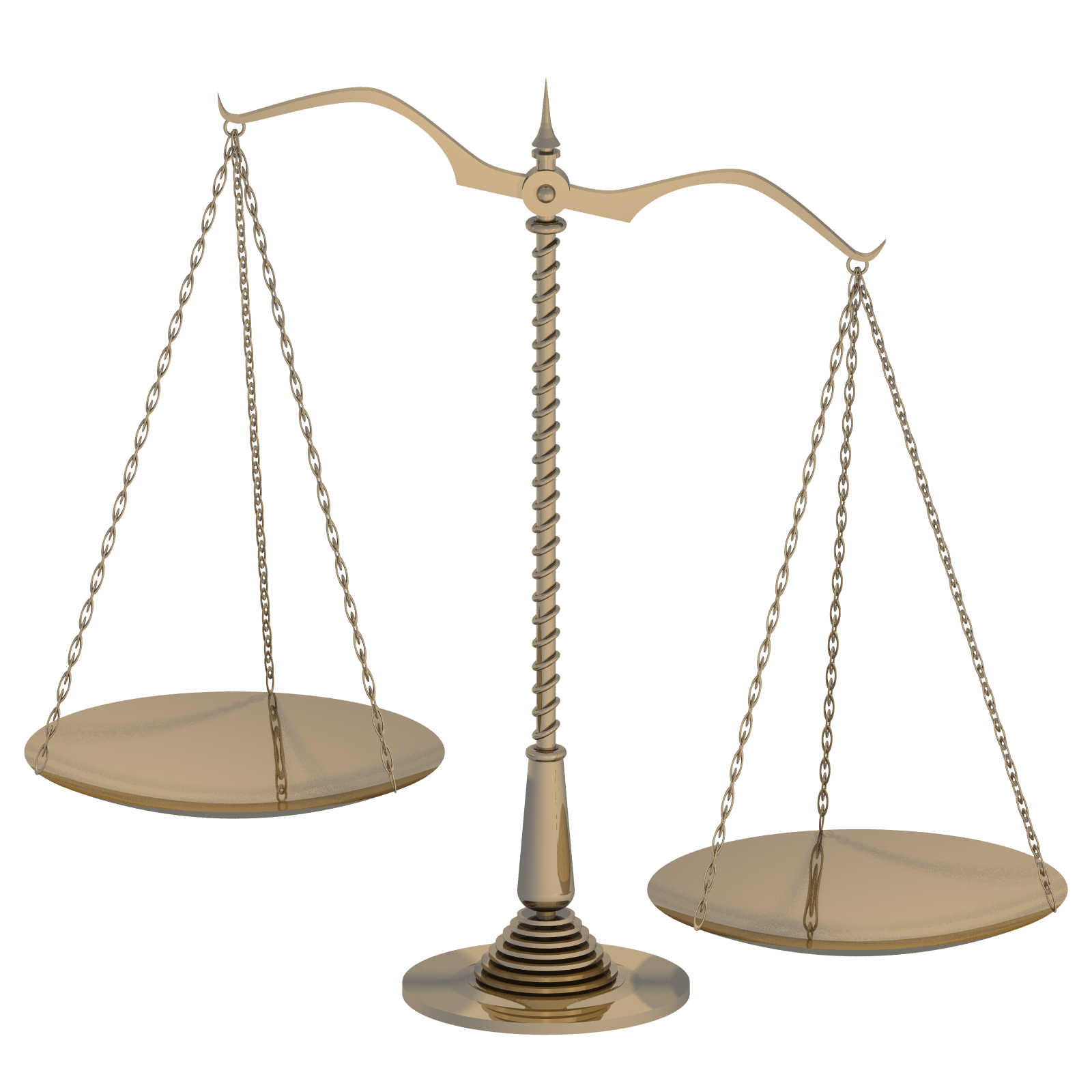 Brass weight scales with cupped trays. Created with POV-ray.